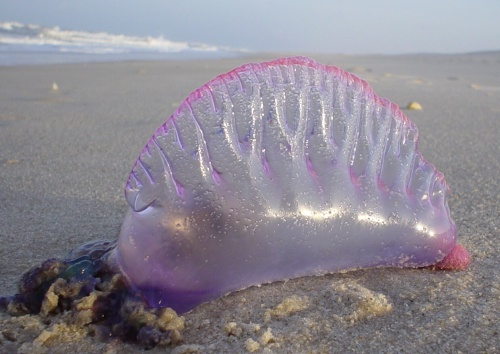 blue Jellyfish in Maranhão.